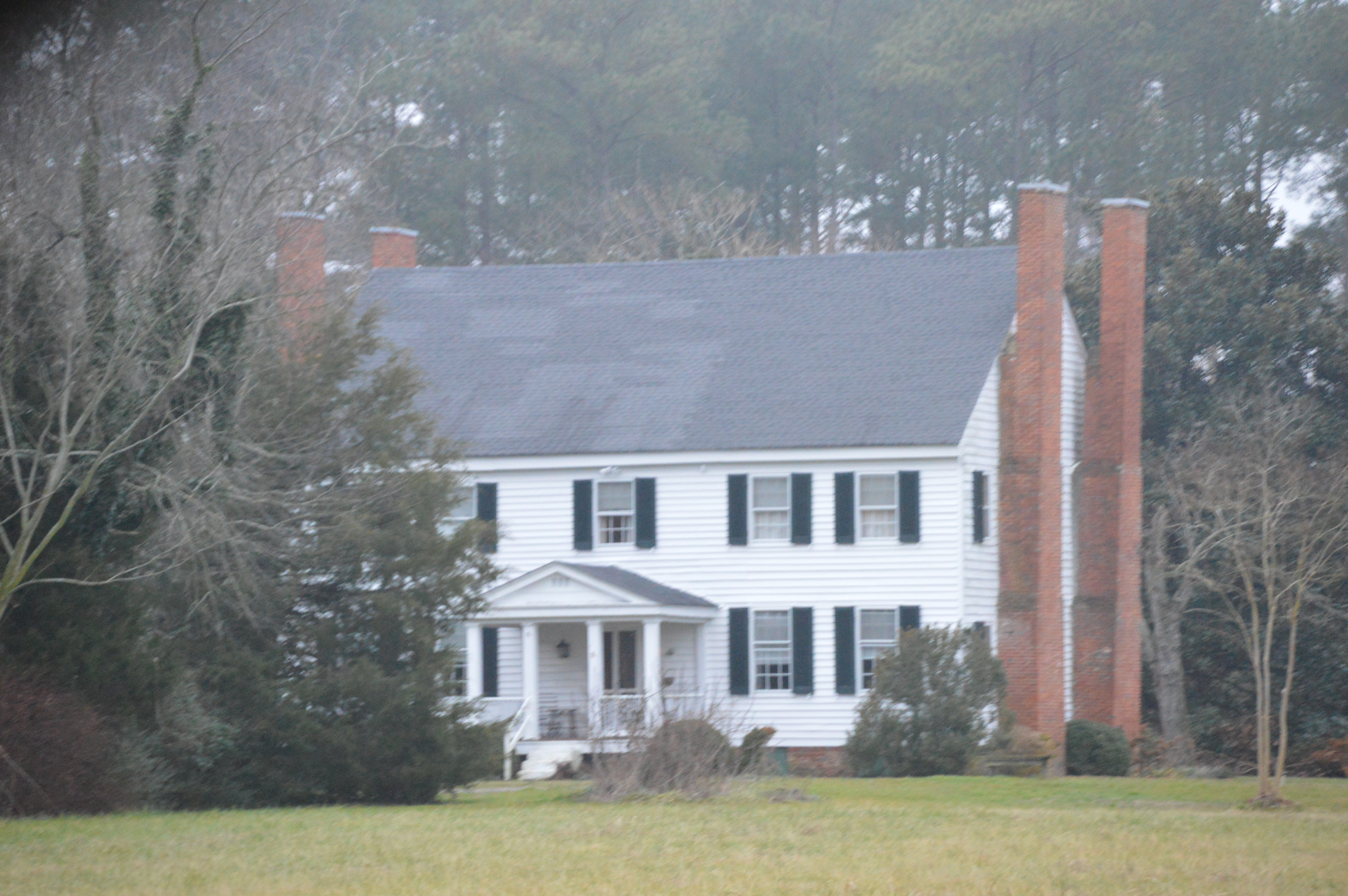 Distant view from the east of the Prospect plantation house, located on State Route 3 south of its crossing of the Rappahannock River in eastern Middlesex County, Virginia, United States. Built in 1849, it is listed on the National Register of Historic Places.